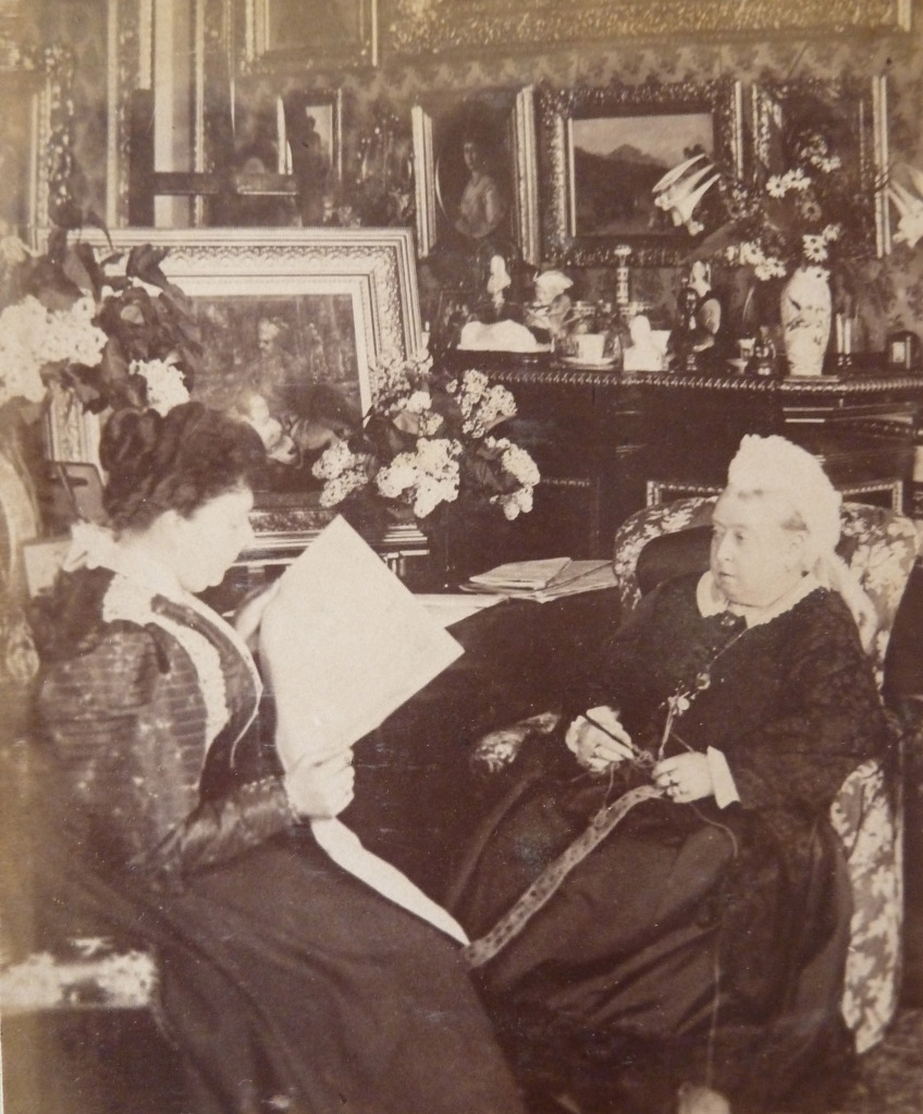 Princess Beatrice of Battenberg and Queen Victoria